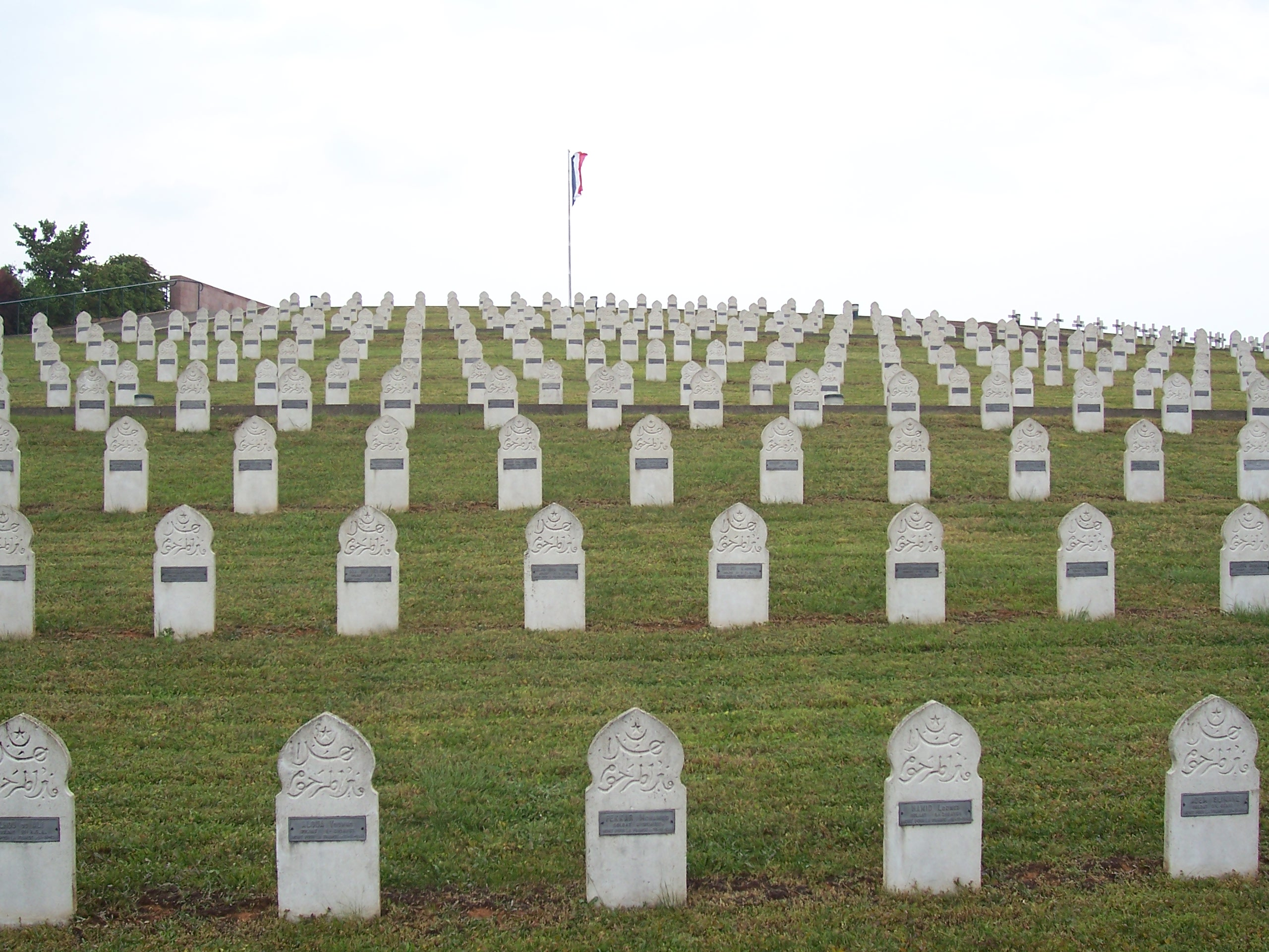 Description:Cimetière militaire de Sigolsheim Source: self-made Name : Mort pour la France Photographer:(my self-made) in Sigolsheim (France-Alsace) See also : Image:Cimetière militaire Sigolsheim - VTdJ.JPG